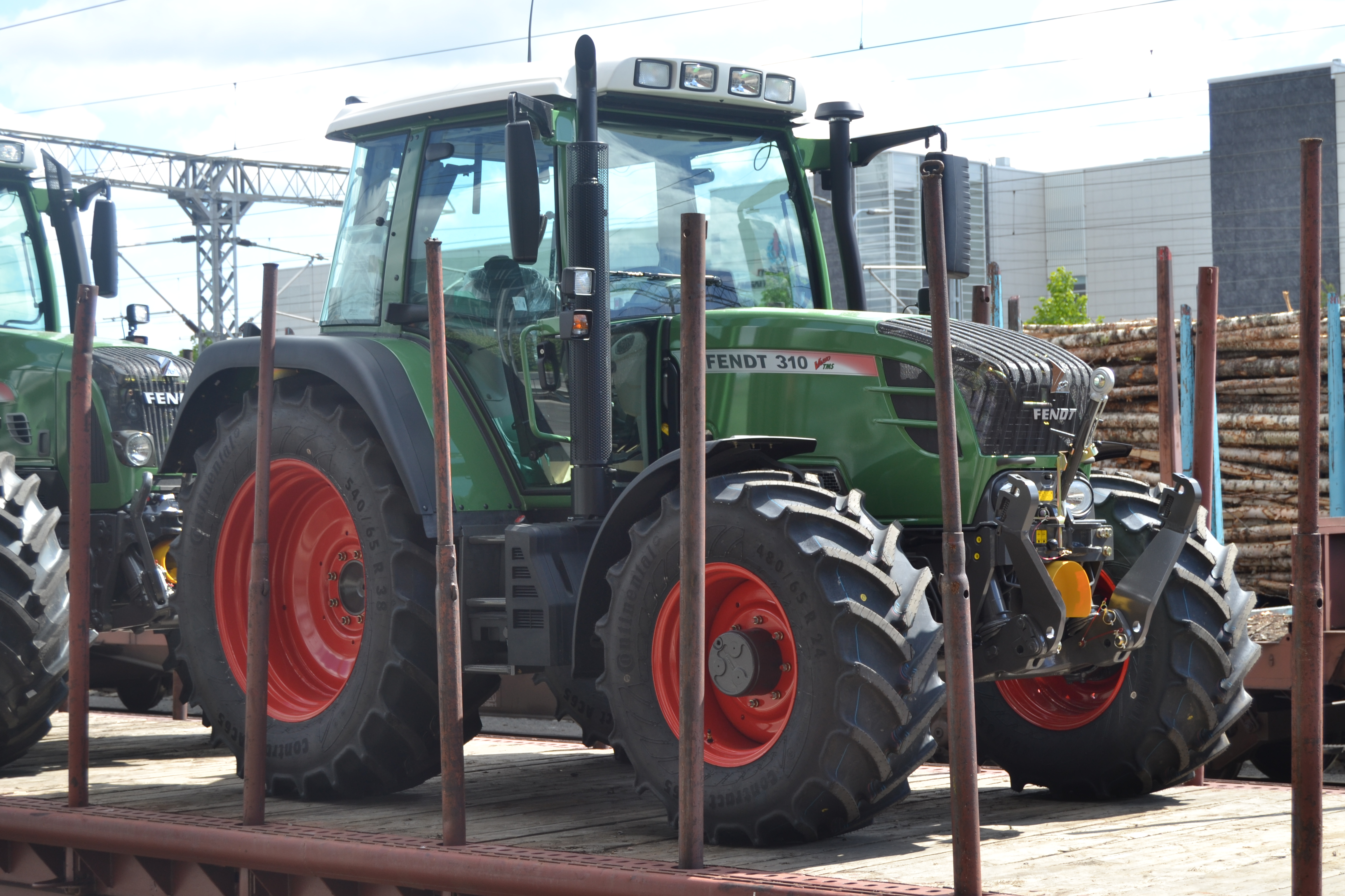 Fendt 310 tractor on train at Jyväskylä railway station, Finland